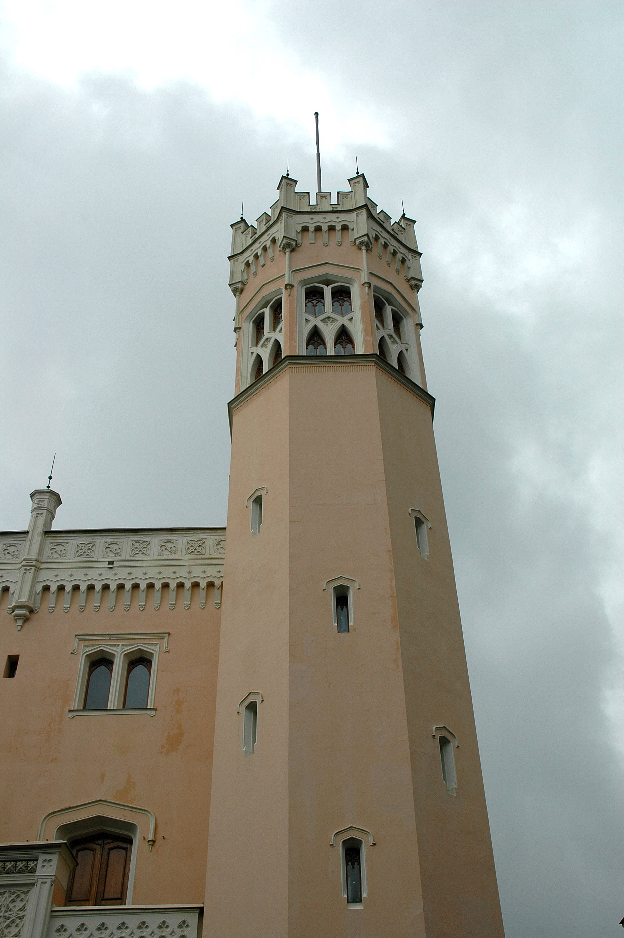 Oscarshall, Oslo.